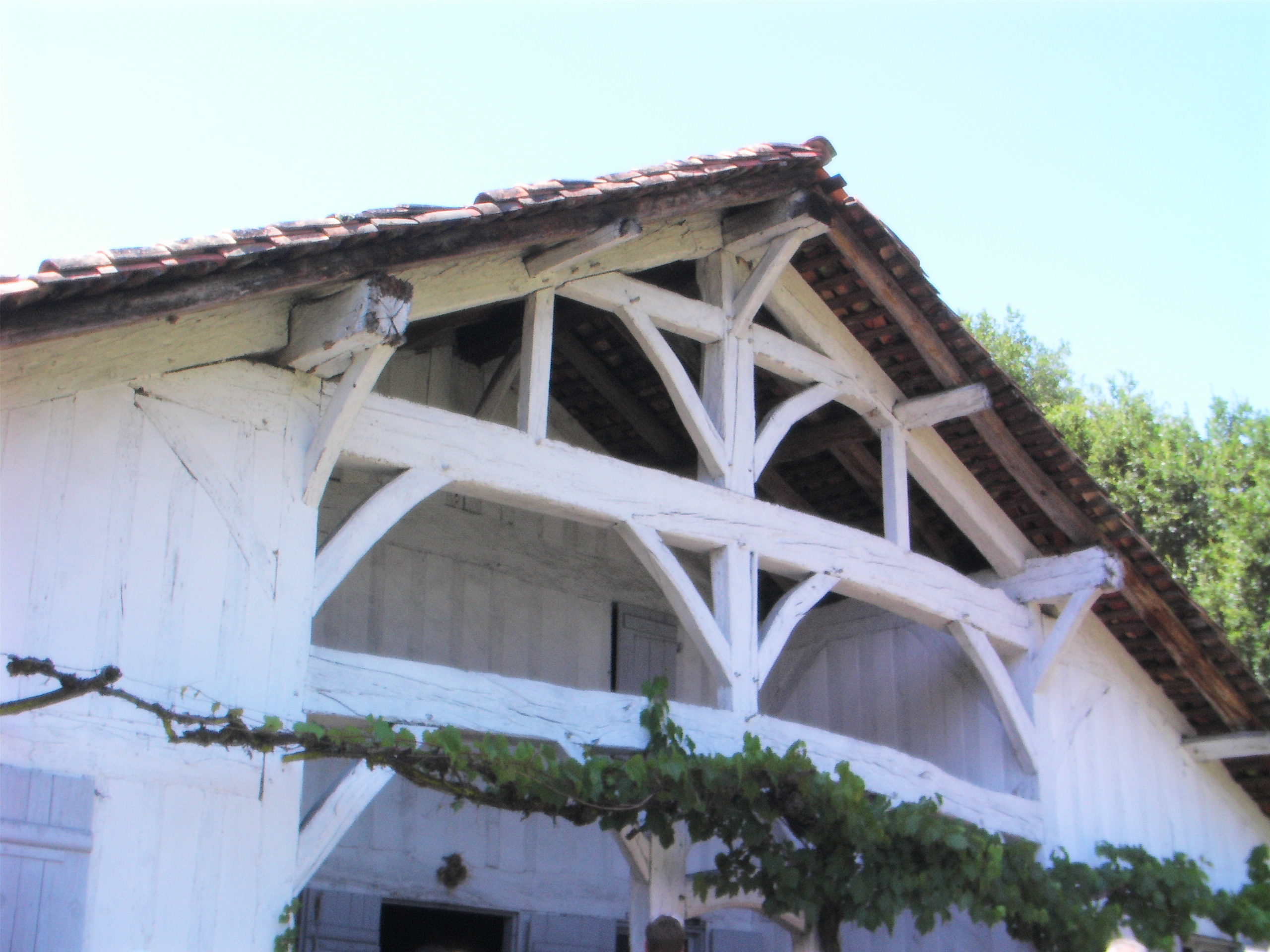 Marquèze. In French this detail is called a estantat.